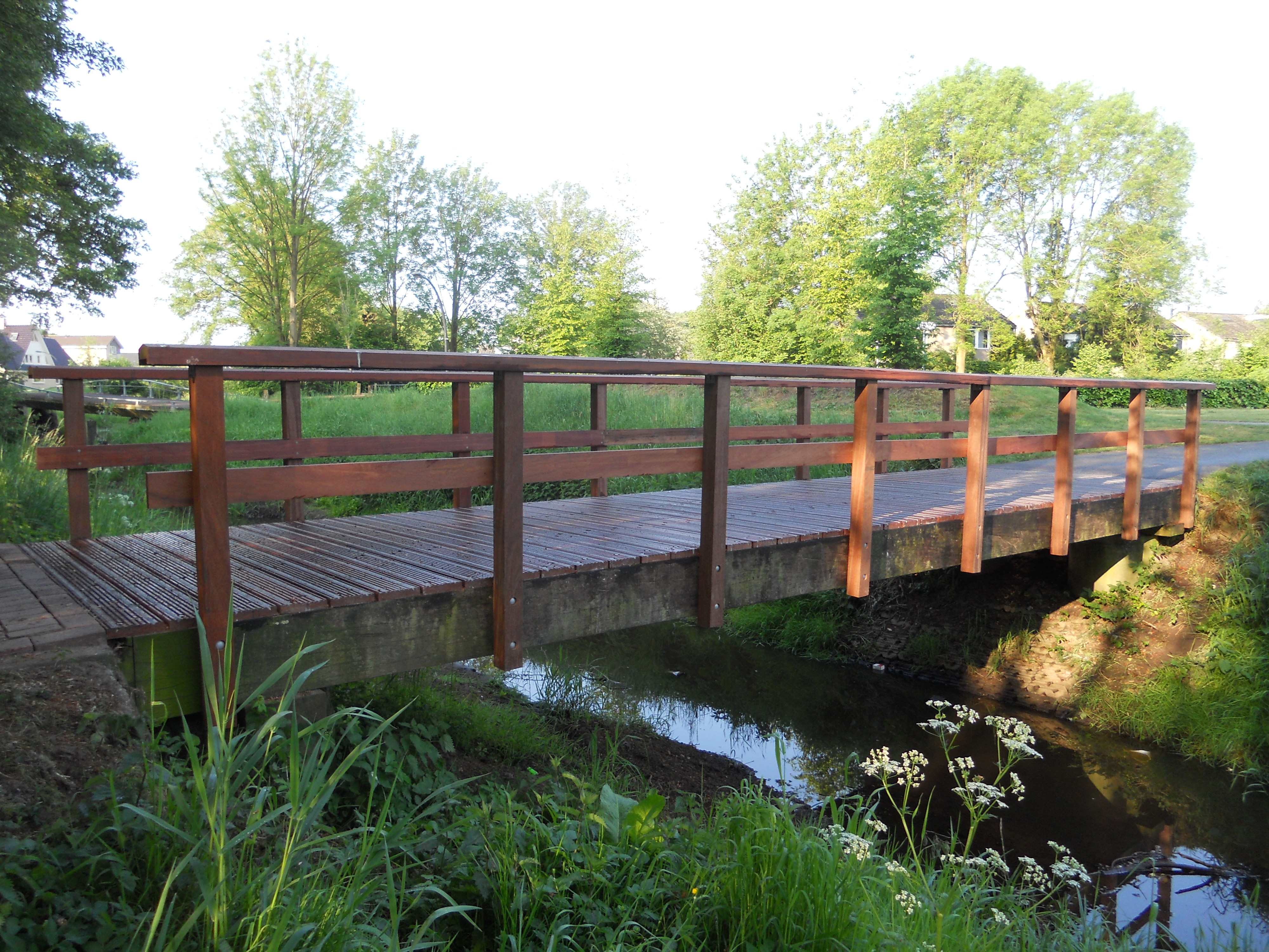 Dutch-German border at Glanerbrug. The image is taken from the German side, the stream is the Glane and the border is at its center.